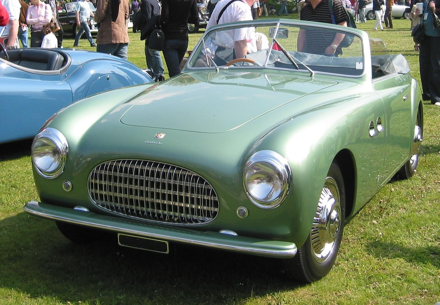 1951 Cisitalia 202 Spider by Stabilimenti Farina. This is chassis 128SC. License "ZA 667 ZS" [1] Has white roof.[2]